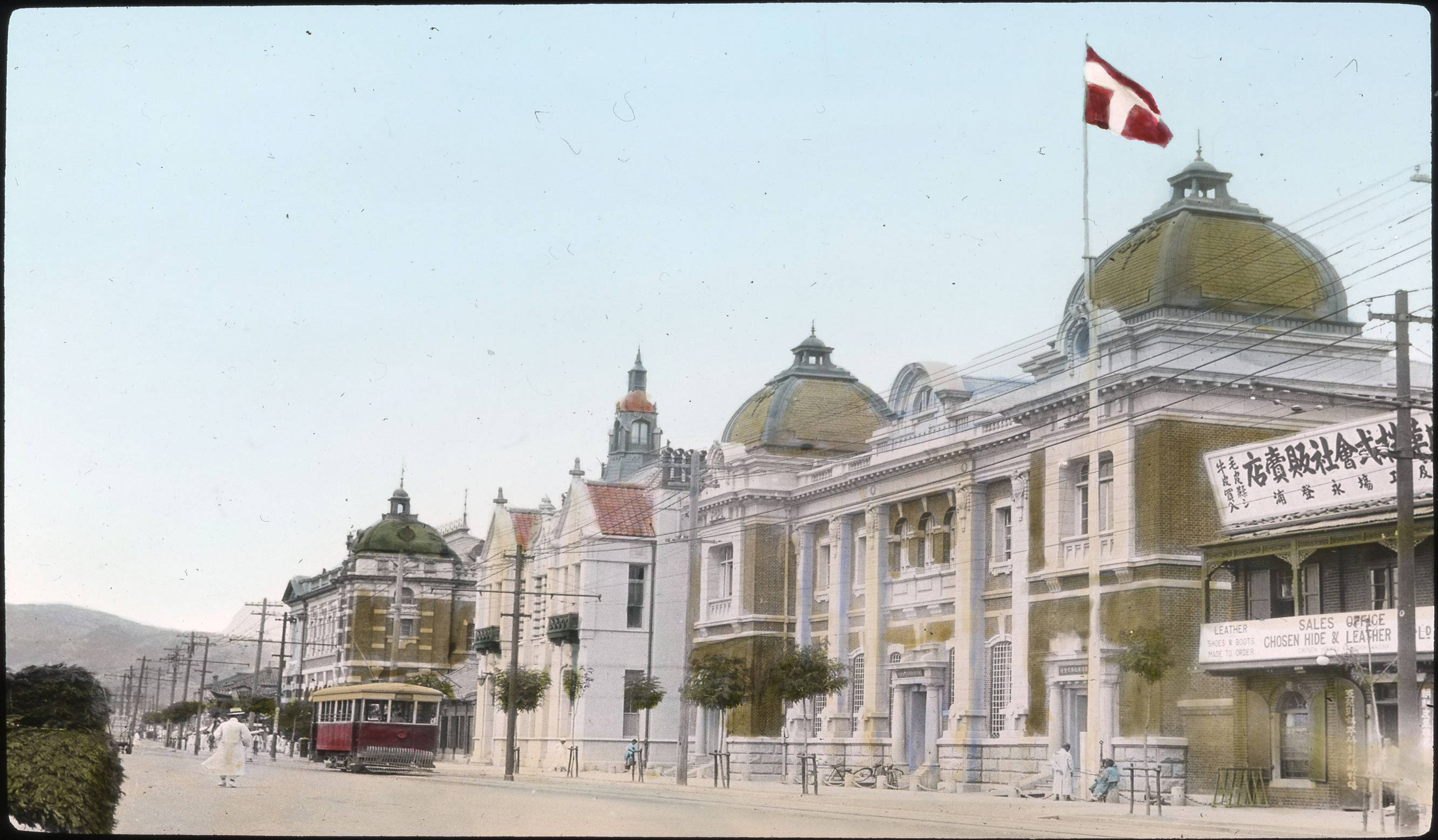 Bank and trolley car, Seoul, [s.d.] Bank and trolley car, Seoul, [s.d.] Date created: 1908/1922 Publisher (of the Digital Version): University of Southern California. Libraries Repository Name: Methodist Church (U.S.) Legacy Record ID: kda-m22 Photographer: Methodist Episcopal Church Format: photograph Archival file: kda_Volume42/Taylor_box45num04.jpg Rights: "Neither the General Conference nor any General Agency of The United Methodist Church (successor to the Methodist Episcopal Church) claims any interest in the photos or images." Part of subcollection: The Reverend Corwin & Nellie Taylor Collection Coverage date: 1908/1922 Contributing entity: University of Southern California Repository Address: Nashville, Tennessee Part of collection: Korean Digital Archive Donor: Taylor, Ewing Bevard Filename: Taylor_box45num04 Type: images Geographic Subject (City or Populated Place): Seoul Geographic Subject (Country): Korea Compiler: Taylor, Corwin; Blood-Taylor, Nellie